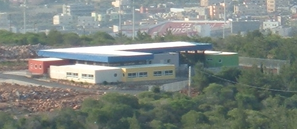 Bi lingual (Jewish-Arab) school "Galil" in Israel בית הספר הדו לשוני גליל בישראל